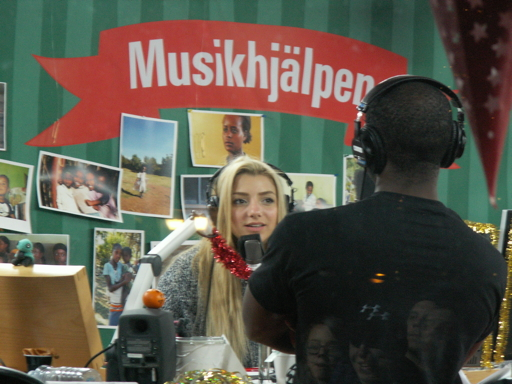 Musikhjälpen 2011, with Gina Dirawi (center) and Kodjo Akolor (right).